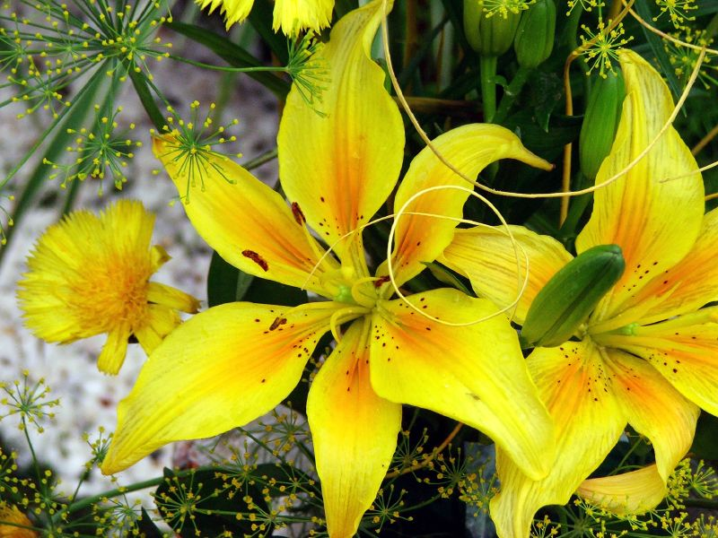 Same as above